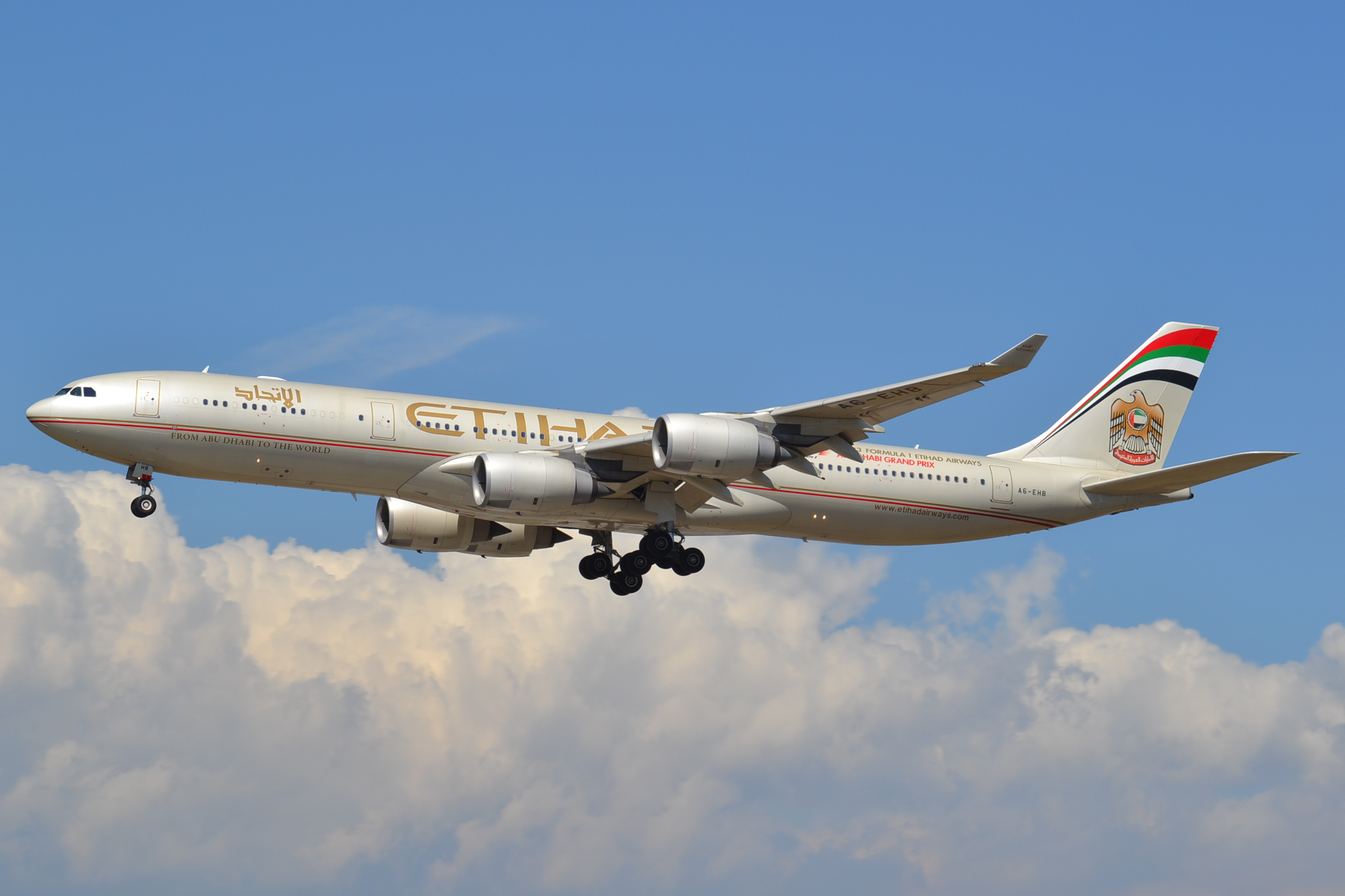 Airbus A340/6 of Etihad Airlines at Frankfurt-FRA,Germany,17/08/13.